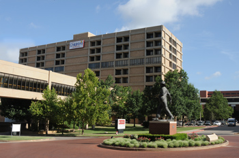 A view of The Children's Hospital at OU Medical Center. The Children's Hospital at OU Medical Center.